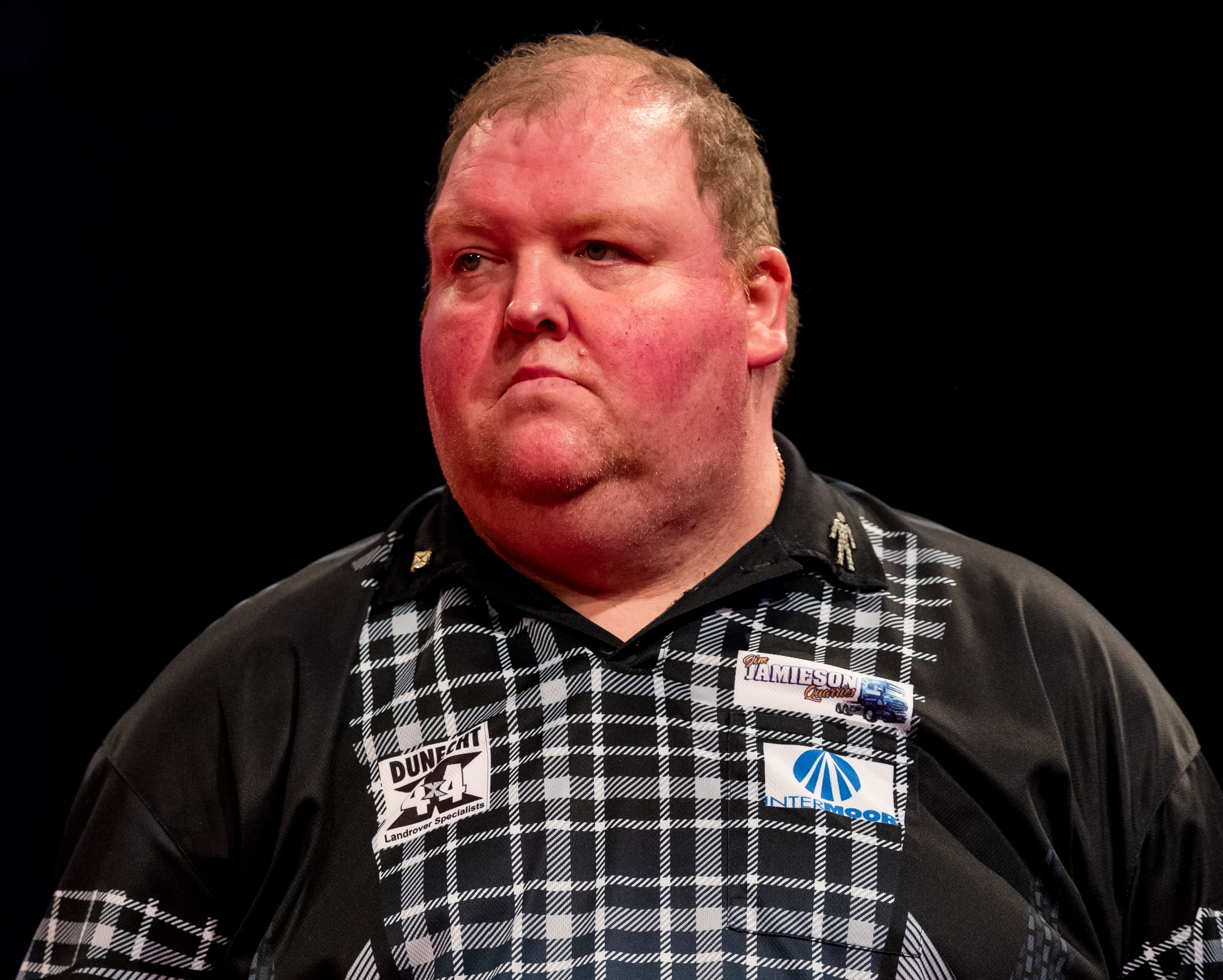 Daryl Gurney 6:4 John Henderson during PDC Europe Darts Matchplay at Maimarkthalle, Mannheim, Baden-Württemberg, Germany on 2019-09-07, Photo: Sven Mandel